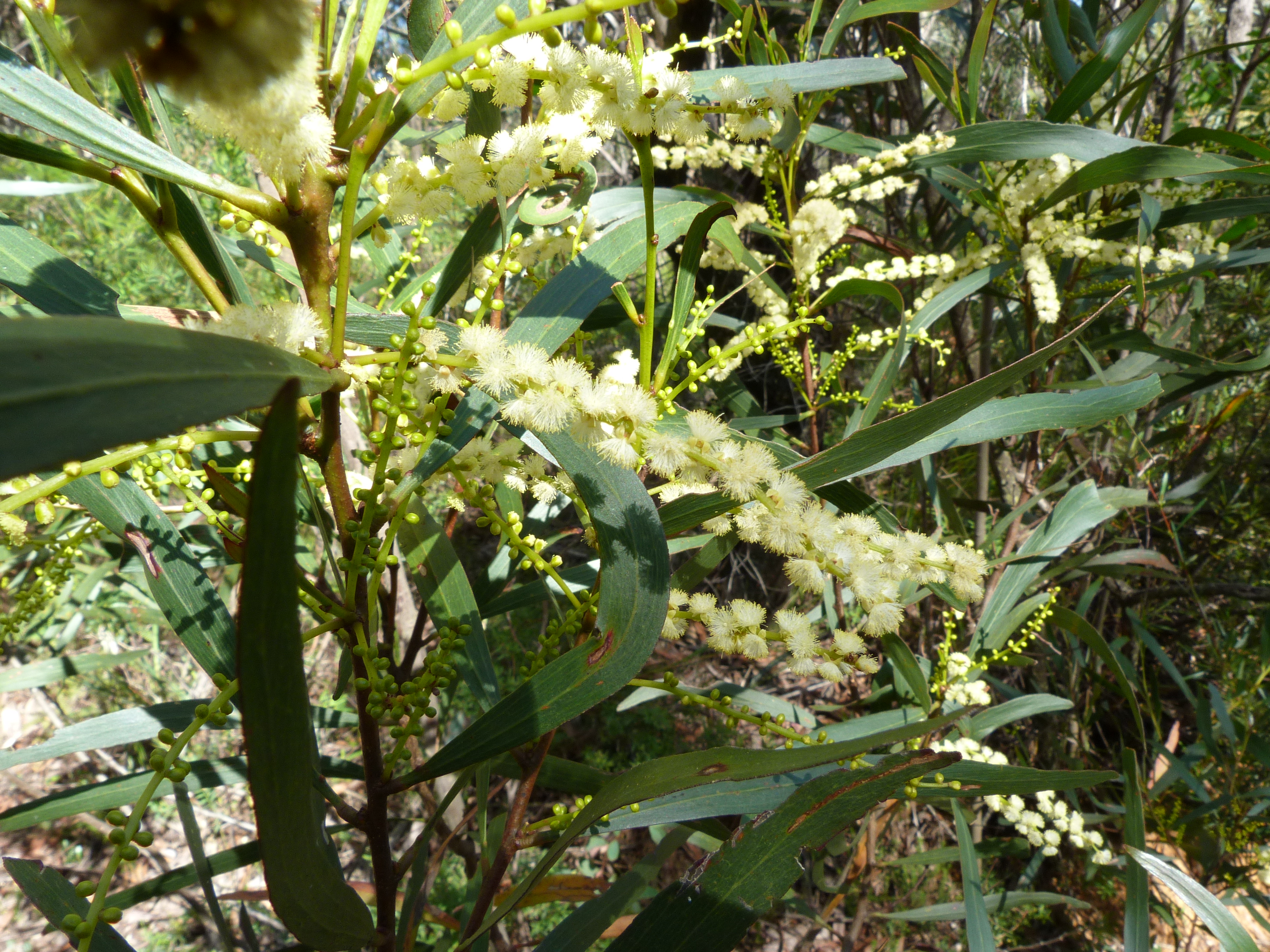 Acacia obtusifolia A.Cunn., Walls Cave Walk, Blackheath, NSW, 25 January 2011